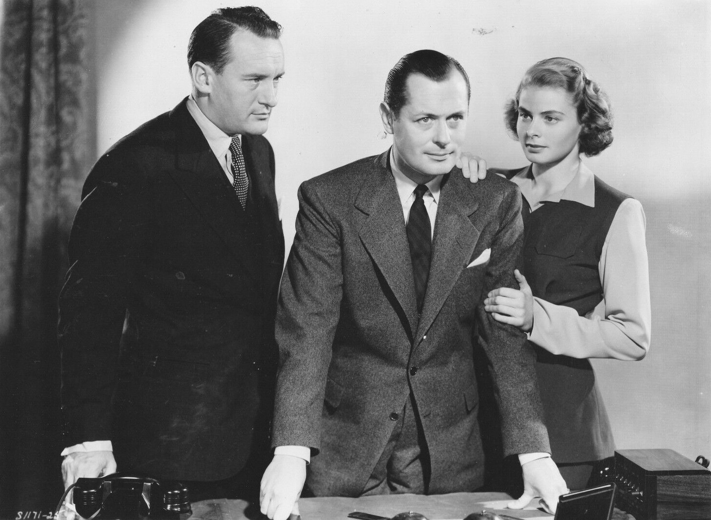 George Sanders, Robert Montgomery & Ingrid Bergman in American psychological thriller film noir Rage in Heaven (1941). No copyright notice.